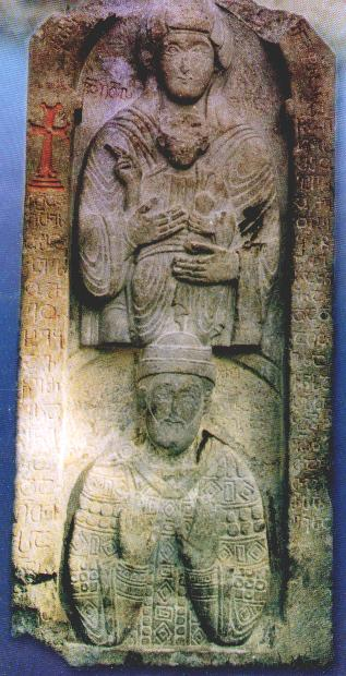 A bas-relief from the Oshki monastery (now in Turkey) depicting the Georgian/Iberian presiding prince David III Kuropalates of Tao, ca 966-973.